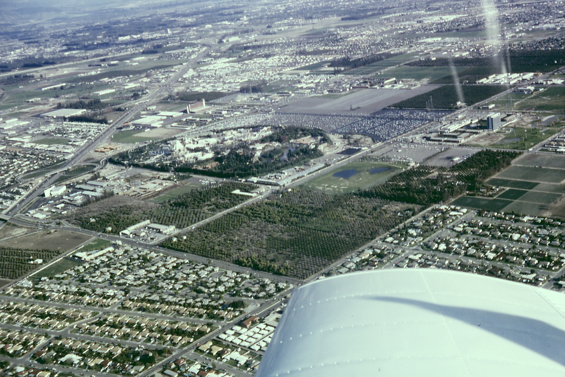 Archival aerial photo of Anaheim, California including Disneyland, the Disneyland Hotel, and the monorail system. The Disneyland Heliport, surrounding orange groves, Santa Ana Freeway (now I-5) and the Melodyland Theater "in the round," and much of the surrounding City of Anaheim, California are also visible.